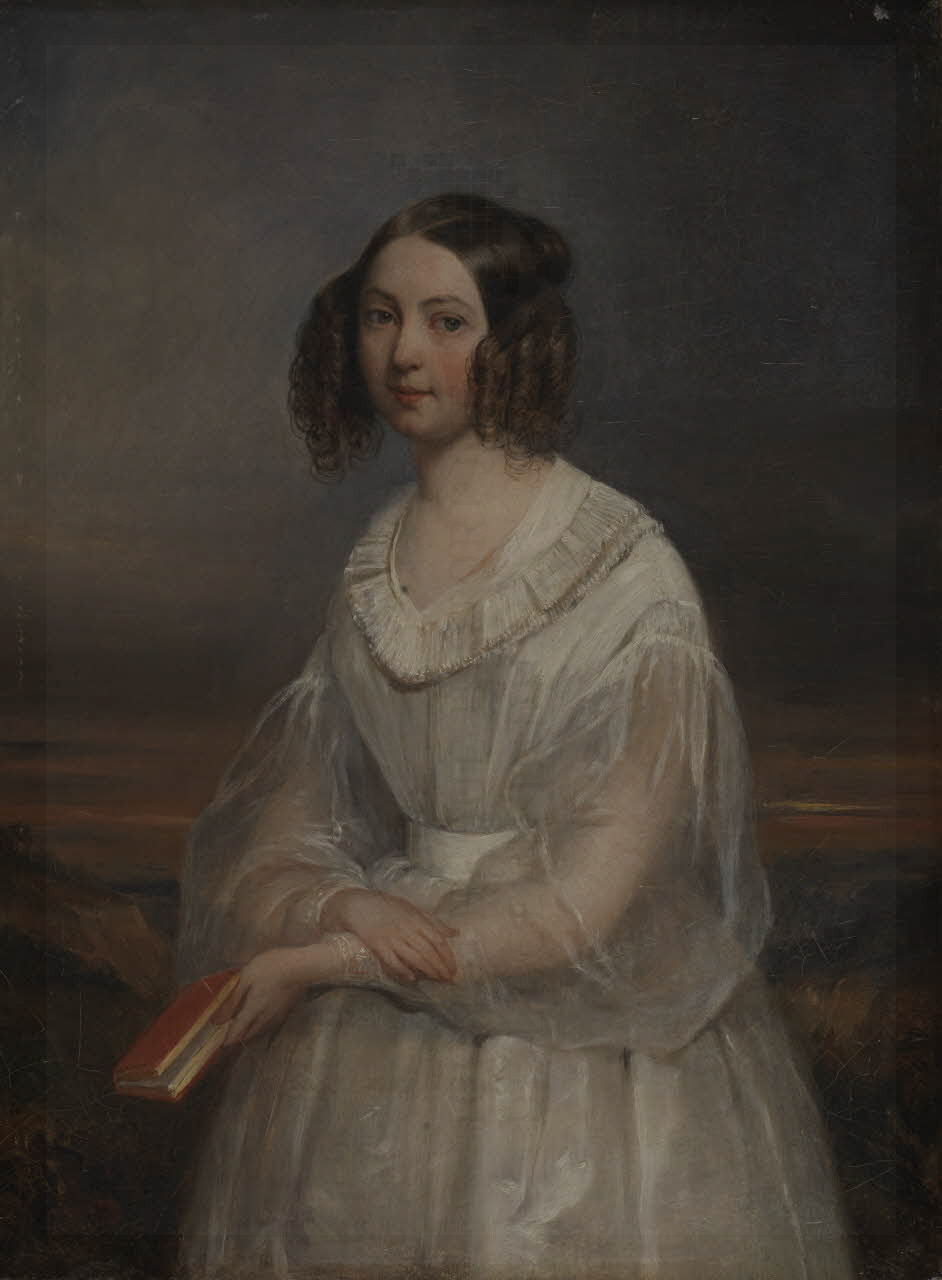 Self-portrait of Adèle Ferrand. The artist is wearing a white dress and is holding a red book.